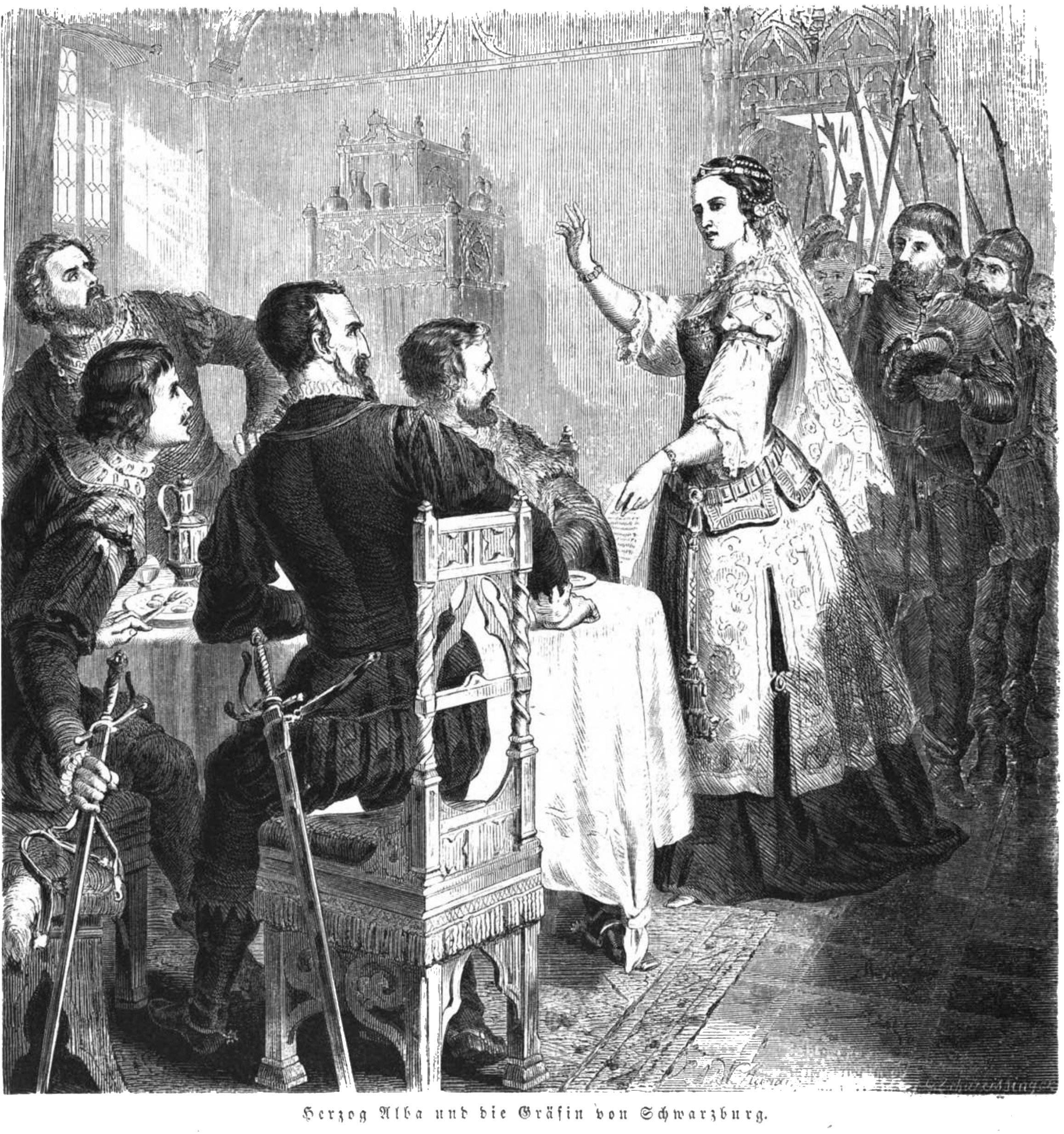 caption: "Herzog Alba und die Gräfin von Schwarzburg."